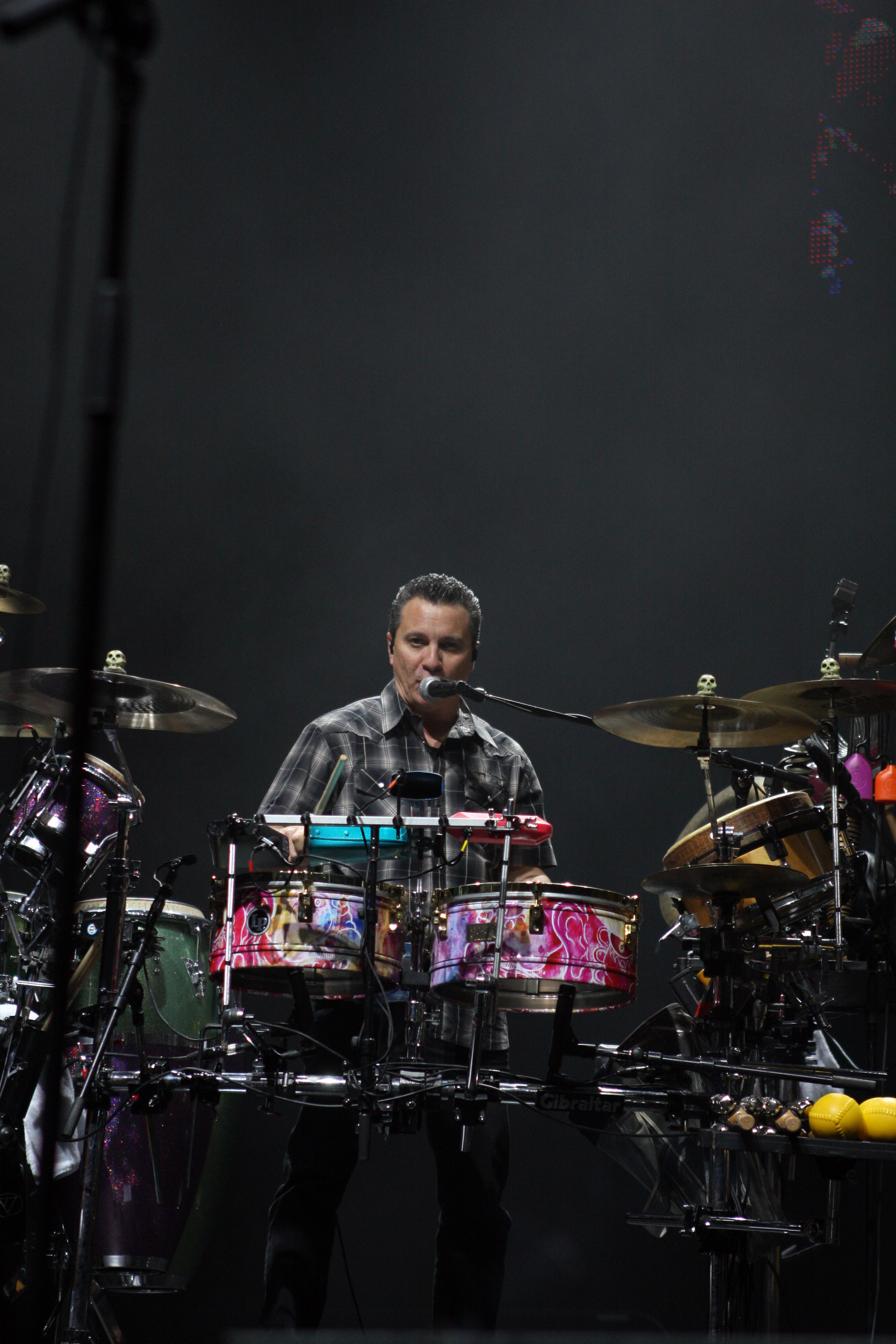 Karl Perazzo of Santana (band) in Sydney 2011